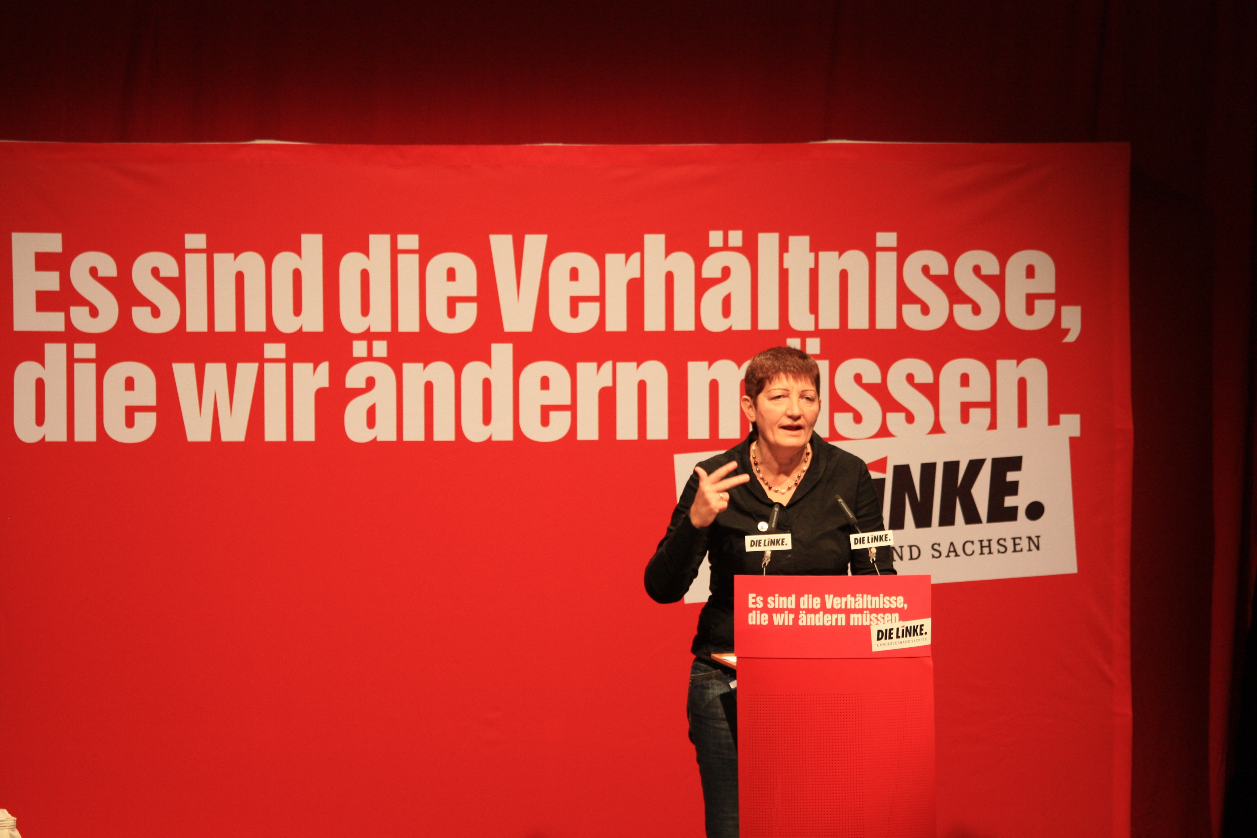 Cornelia Ernst at 6th congress of The Left Saxony 2011 in Bautzen